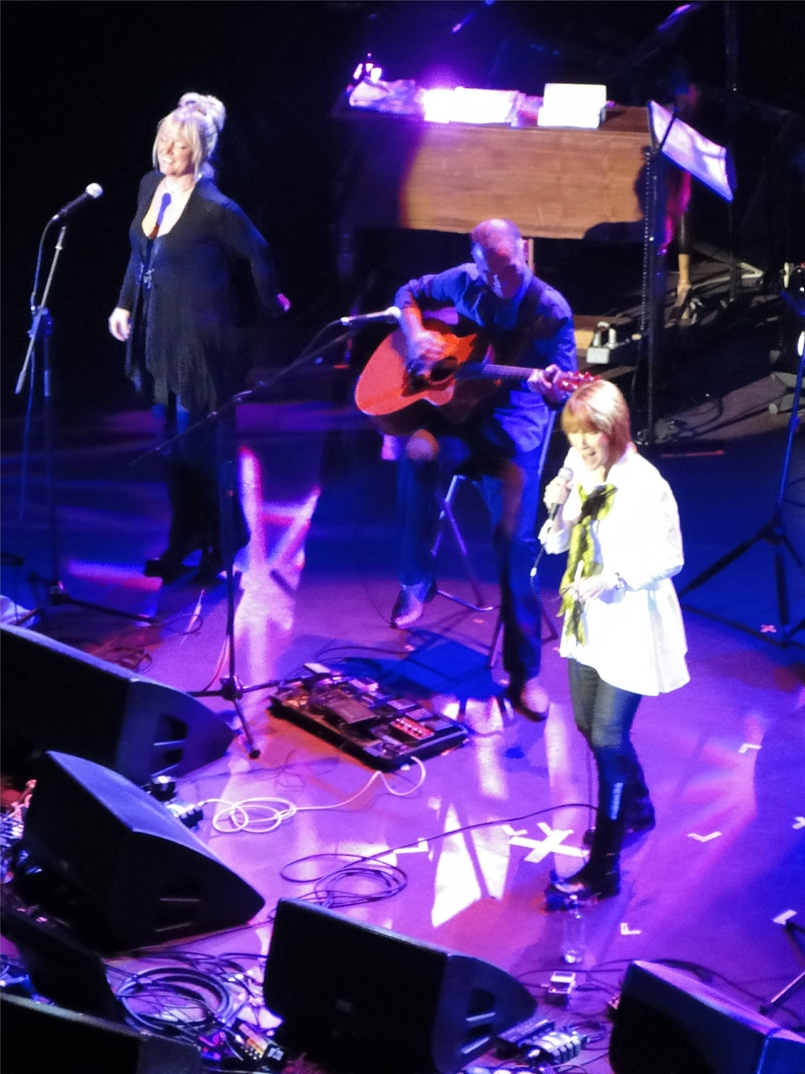 Kiki Dee (right) appearing at London's Royal Albert Hall, October 2009